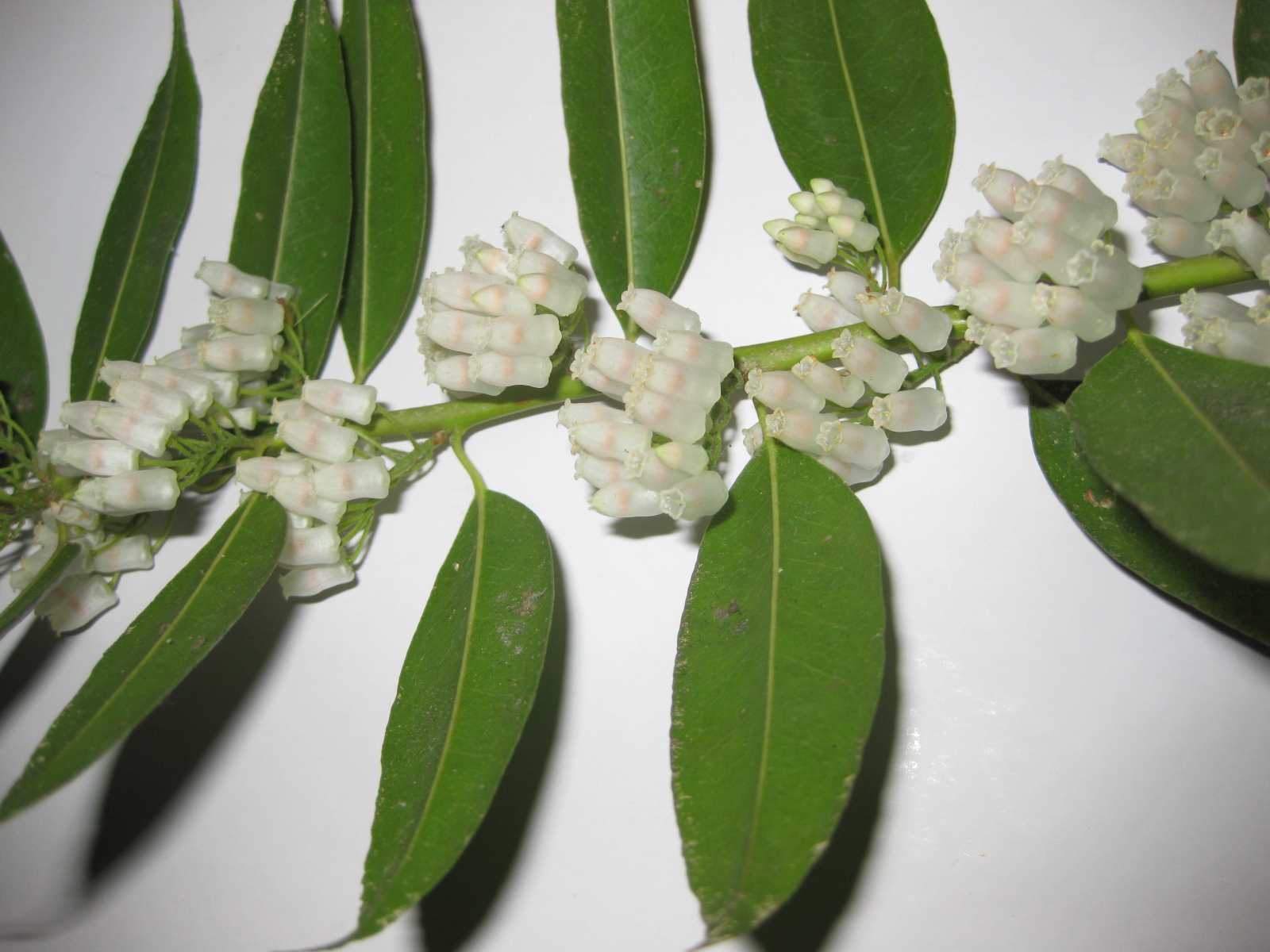 Agarista populifolia-Flowering branch from below.